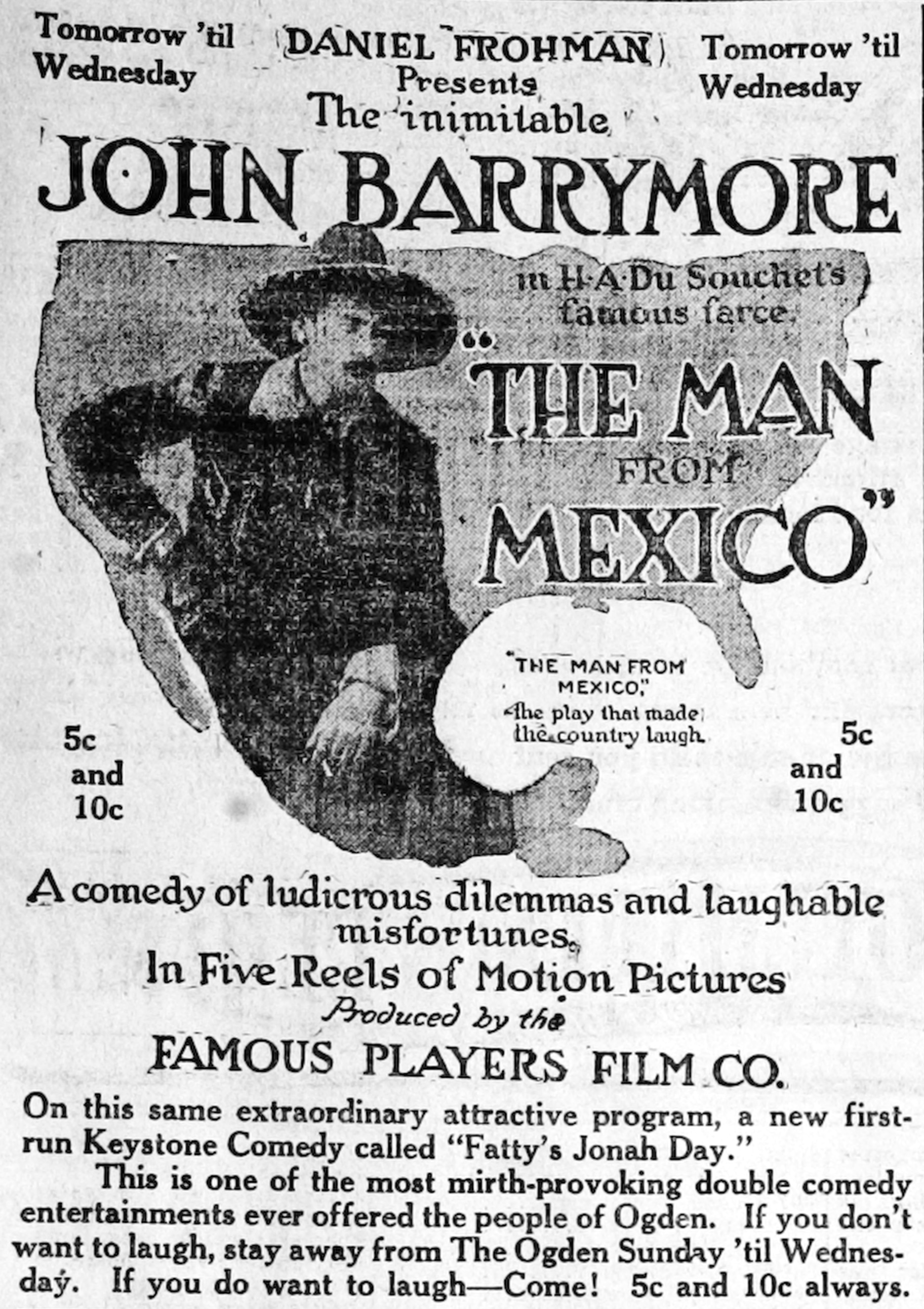 The Man from Mexico is a 1914 silent film produced by the Famous Players Film Company and Daniel Frohman. It starred John Barrymore in his second feature film and was remade in 1926. This is a newspaper advertisement.